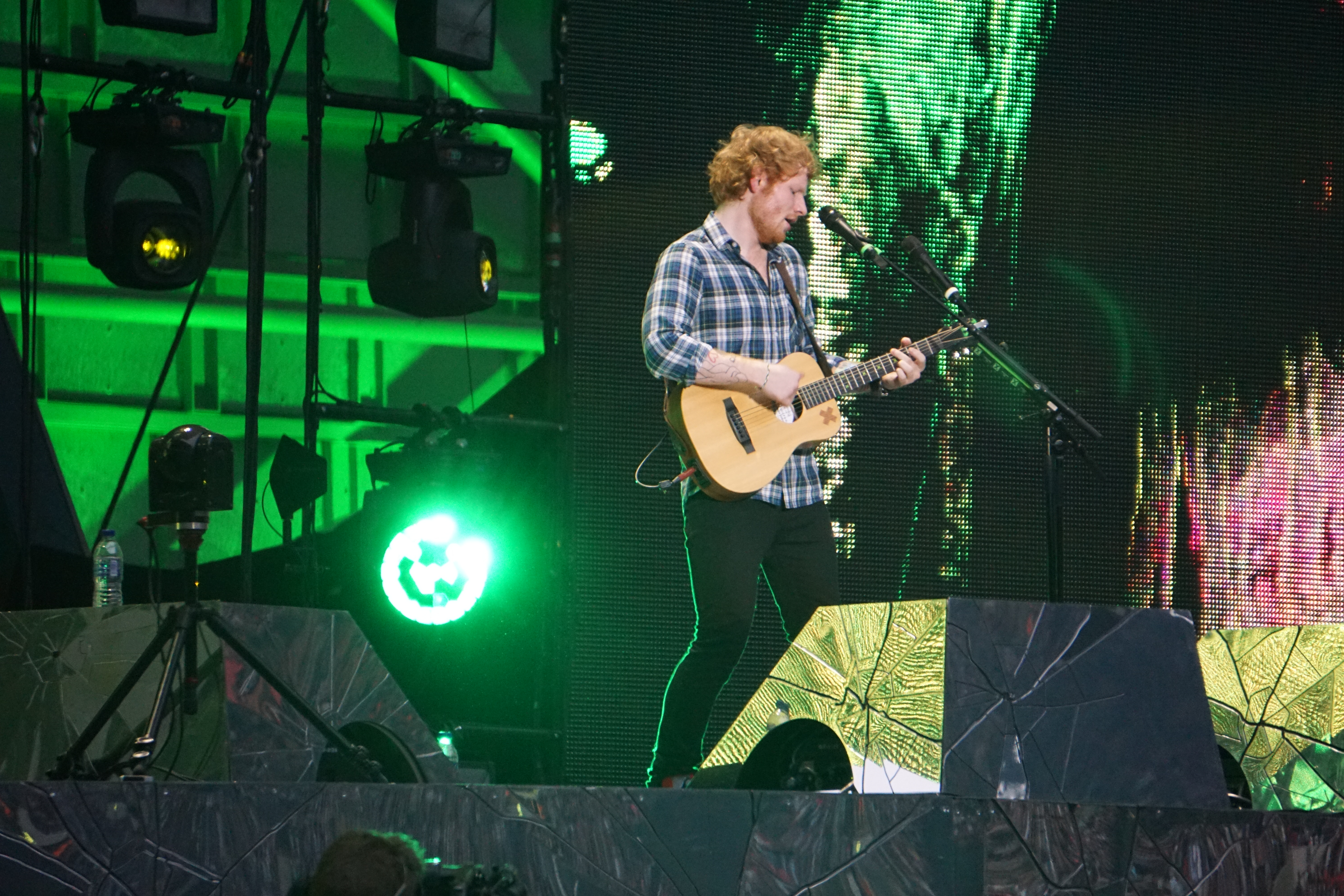 Ed Sheeran @ Wembley 42